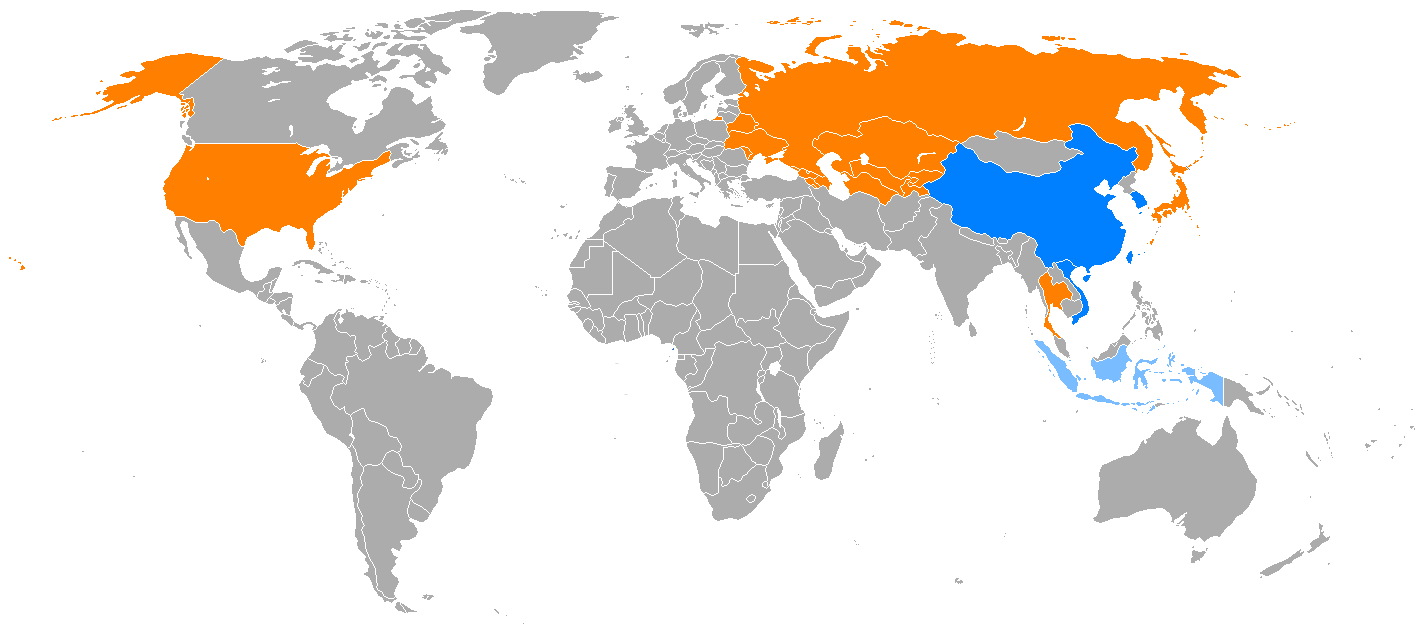 Countries where Crazy Arcade is localized / was localized. English (en): Crazy Arcade The game localized. Location will be opened soon. Location closed. The game have never been localized and doesn't plan to.